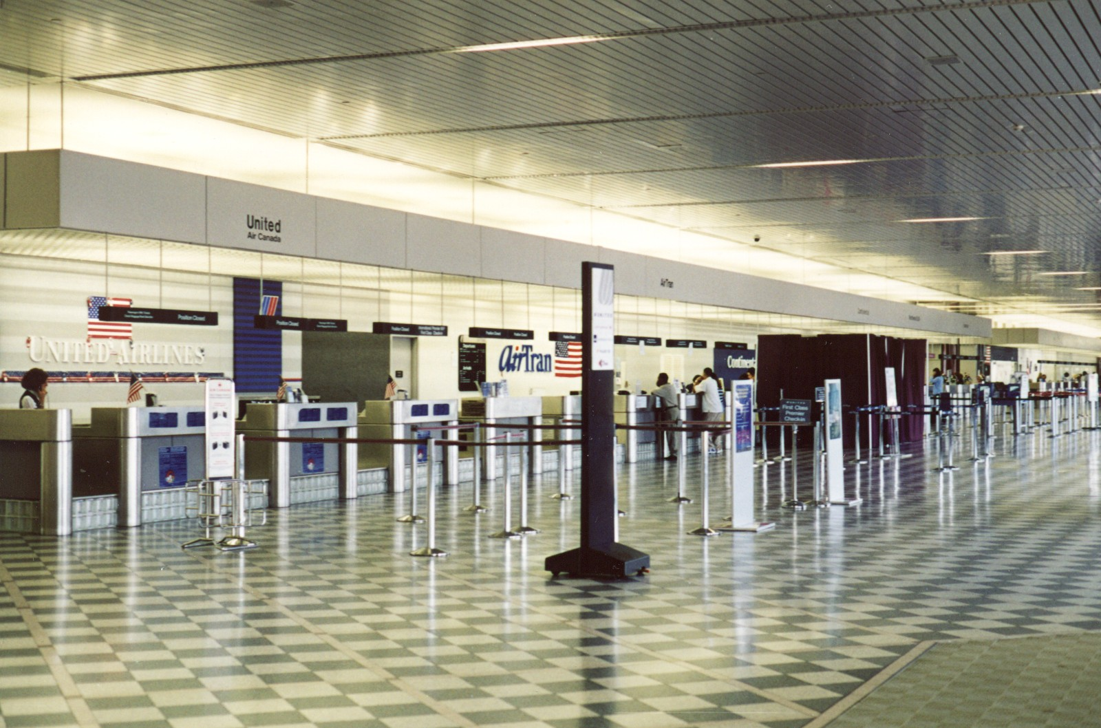 East ticketing lobby at Greater Rochester, NY International Airport, seen in September 2002.